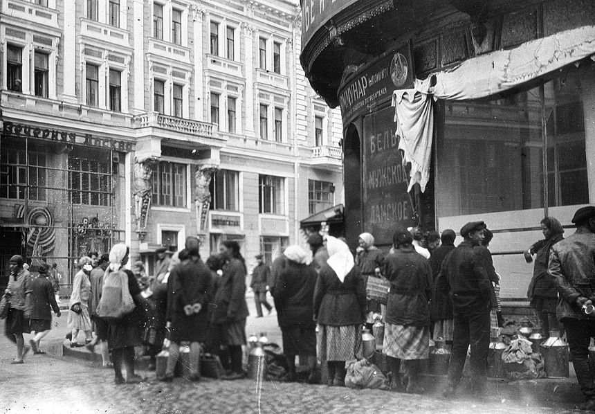 Yermolova theatre building